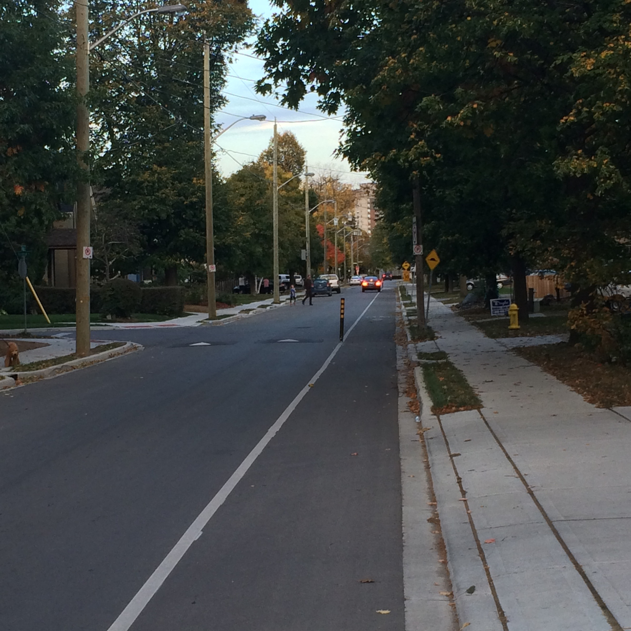 Bike Lane in Wortley Village London Ontario